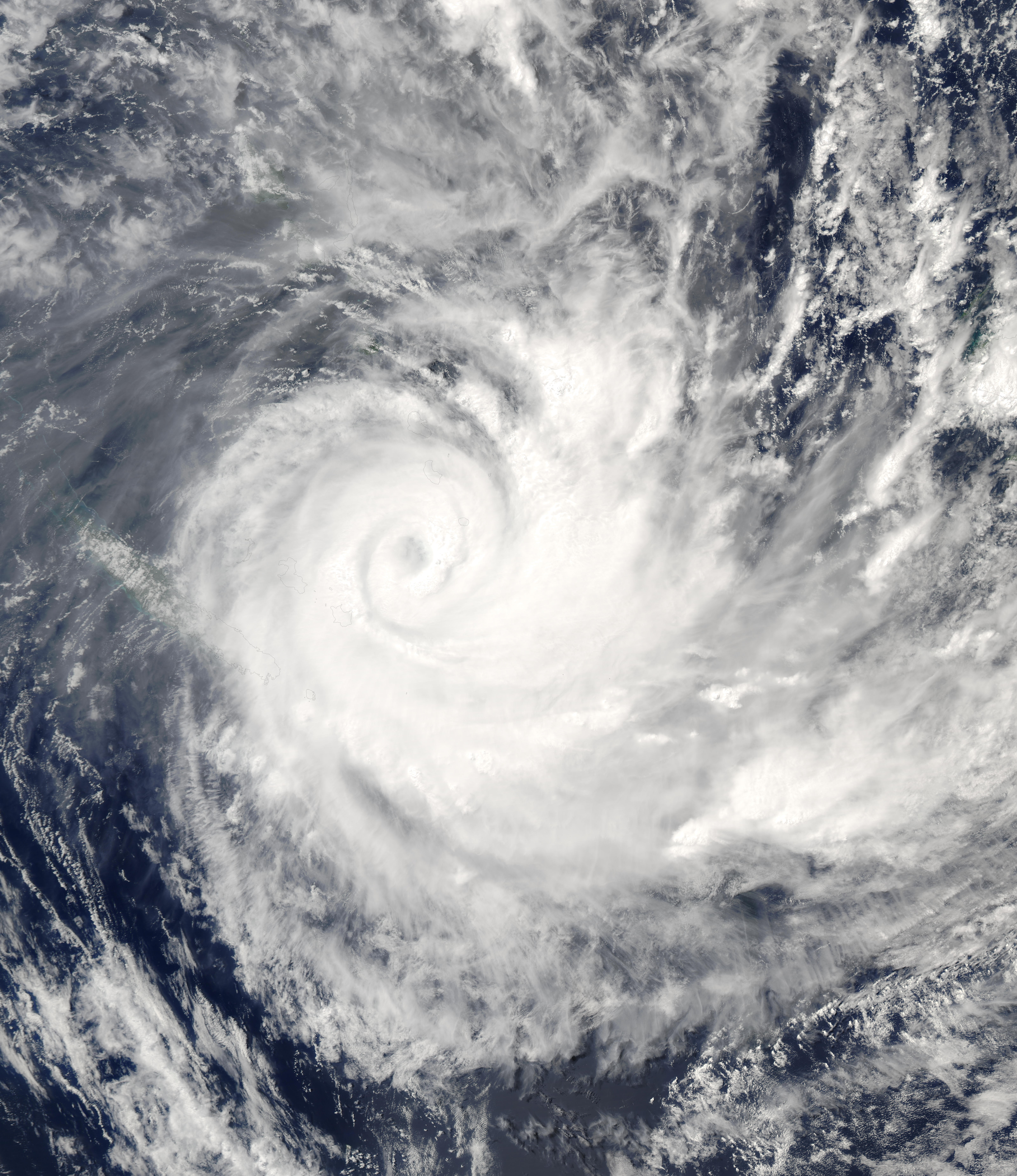 This image of Tropical Cyclone Ivy was captured by the MODIS instrument on NASA's Aqua satellite on February 27, 2004 at 02:15 UTC when it was near Aneityum. At the time, the storm's maximum sustained winds were at 90 knots (10-minute average) and its minimum central pressure was 940 mb.